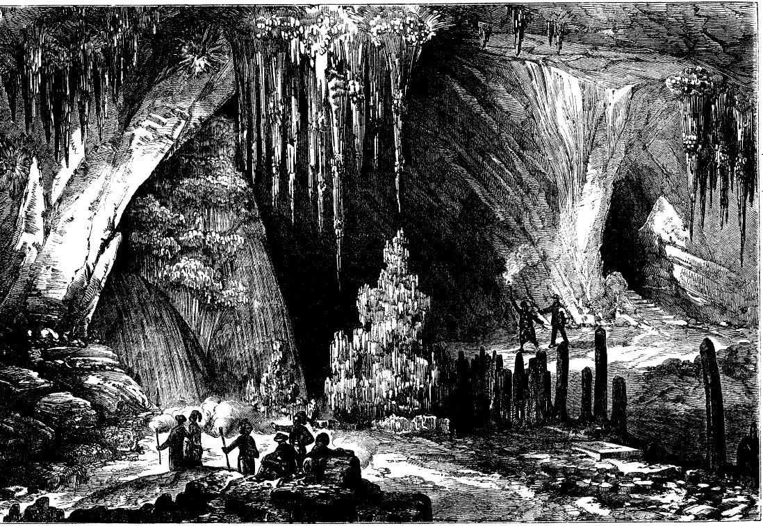 Picture of the cave at Antiparos, taken from the public domain publication "Svensk Familj-Journal".